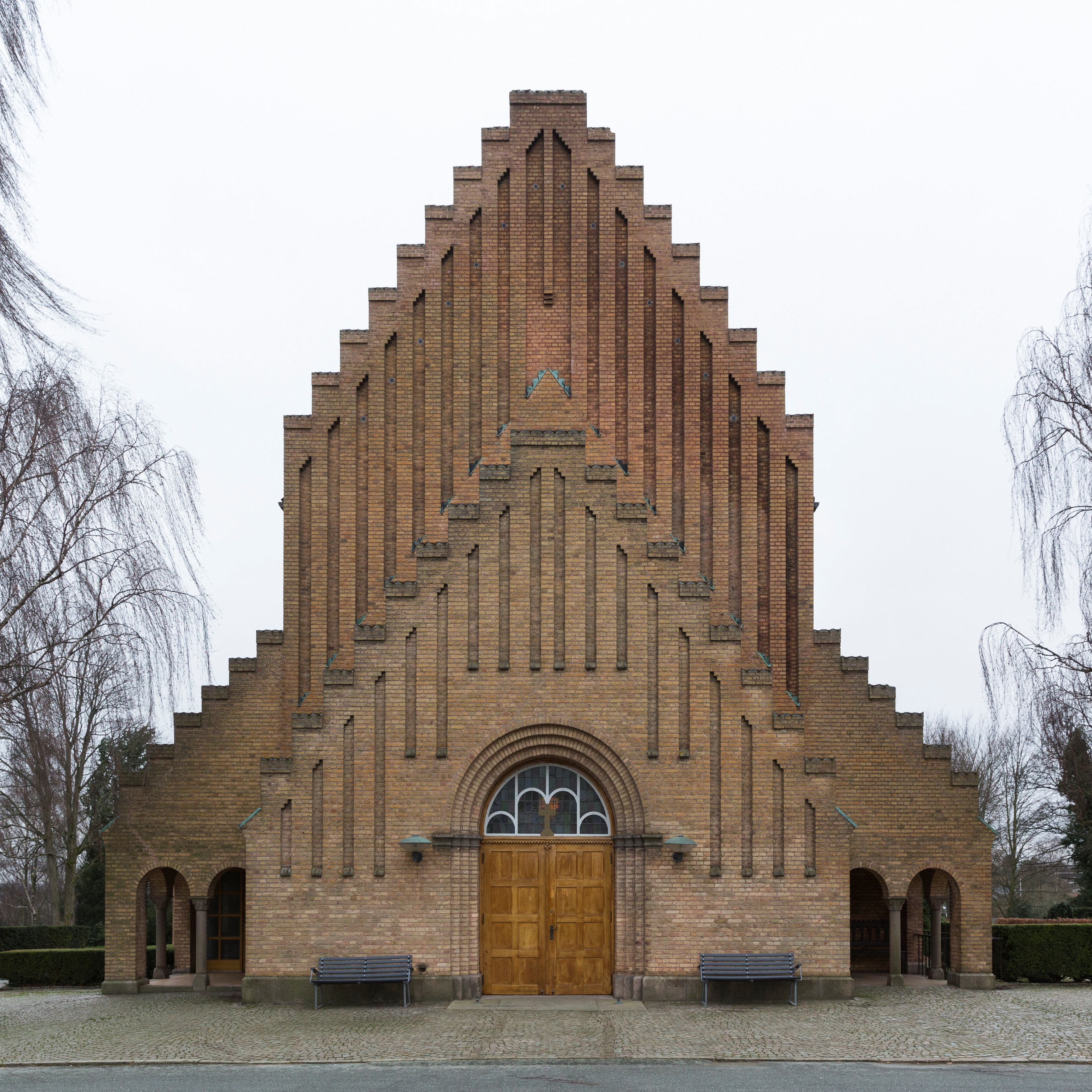 The Great Chapel at Vestre Cemetery, Aarhus